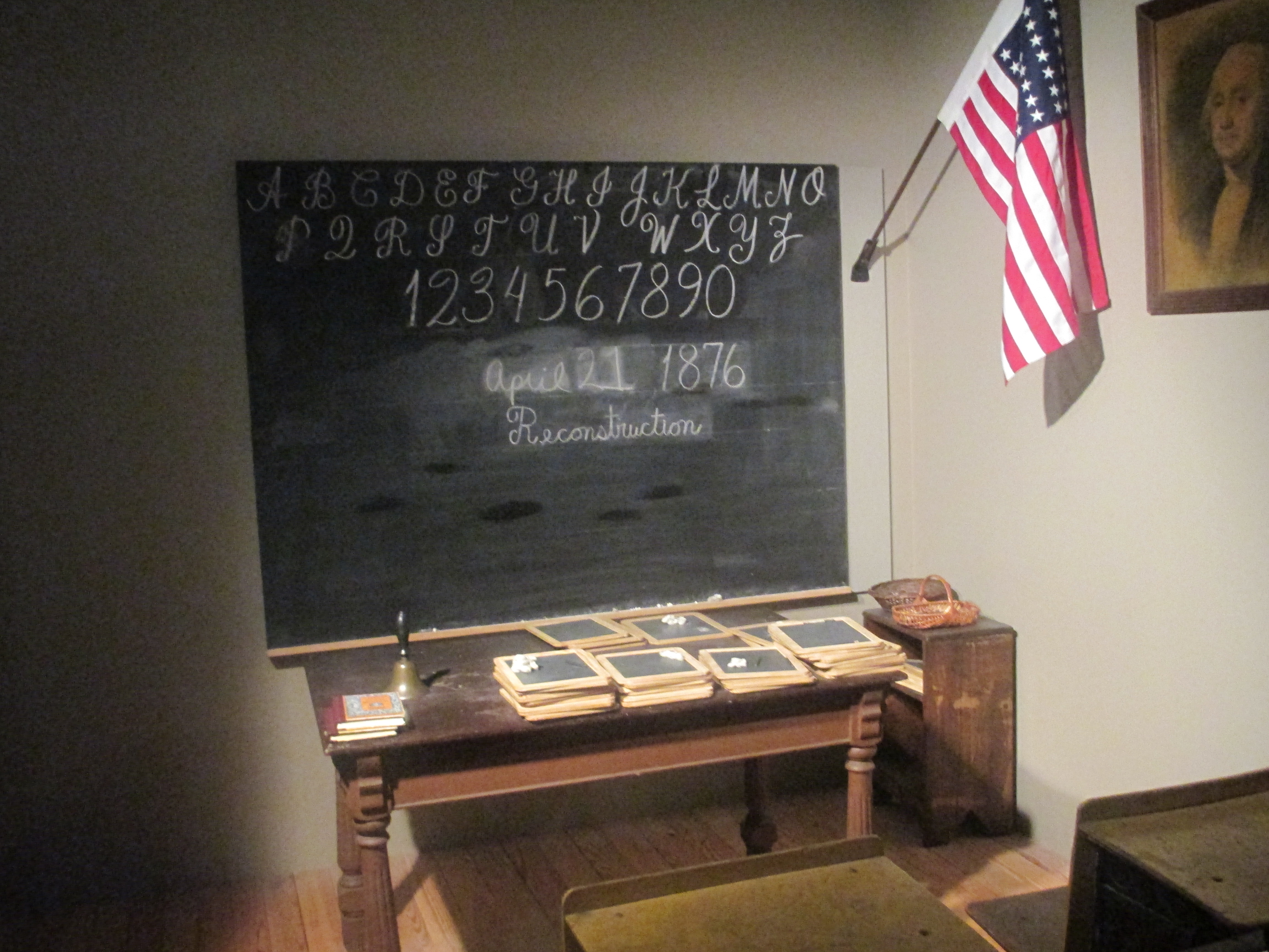 Education exhibit at the Cape Fear Museum in Wilmington, North Carolina. Credits I took photo with Canon camera.